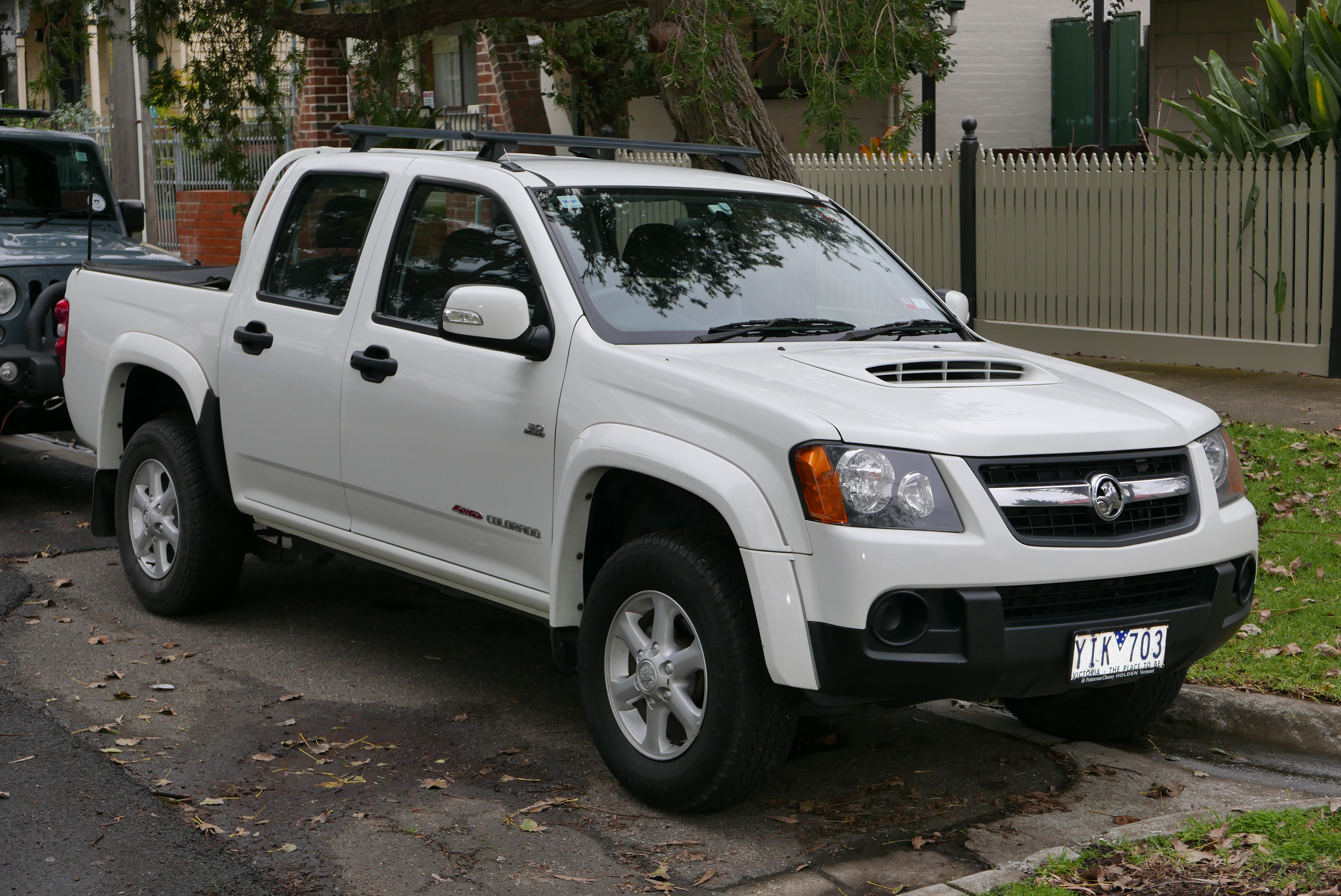 2011 Holden Colorado (RC MY11) LX-R 4WD Crew Cab 4-door utility. Photographed in Brunswick East, Victoria, Australia. Vehicle registration enquiry resultsJurisdictionVictoriaRegistrationYIK703Chassis codeMMMTFS85HBH532652Engine code4JJ1HZ0672Compliance date2011-04Year of manufacture2011